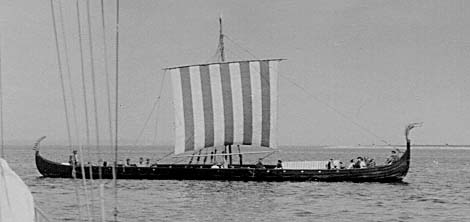 This is a black and white picture of a viking ship, taken from the side. The photo was taken by Uwe Kils, on 1969, at Danish island of Barsø